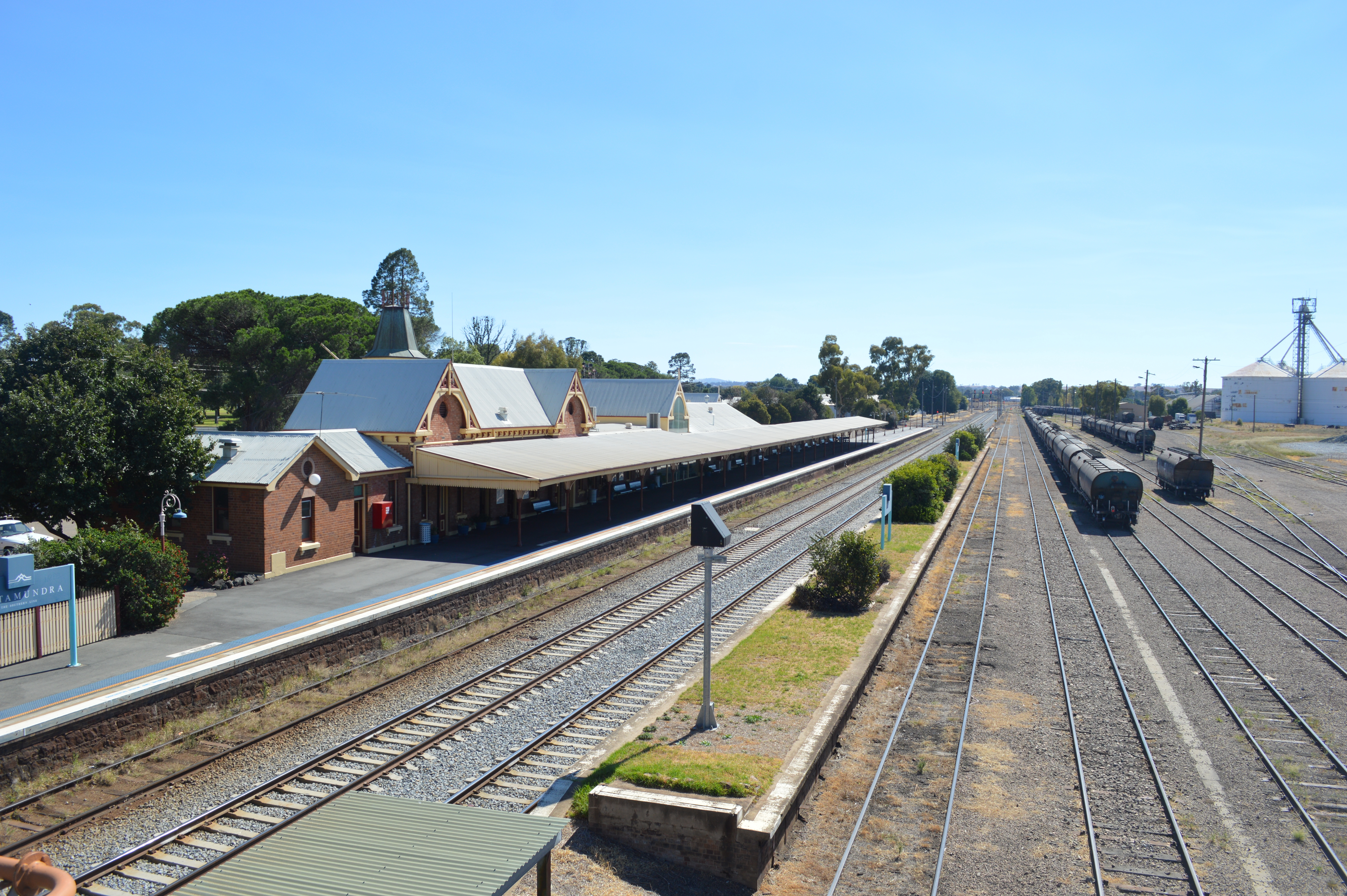 Cootamundra railway station in Cootamundra, New South Wales seen from the footbridge